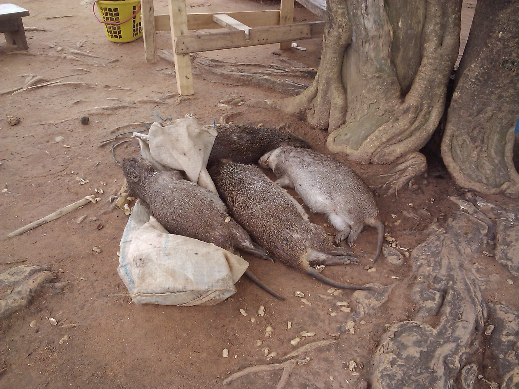 Cane rats (Thryonomys) in Ivory Coast.